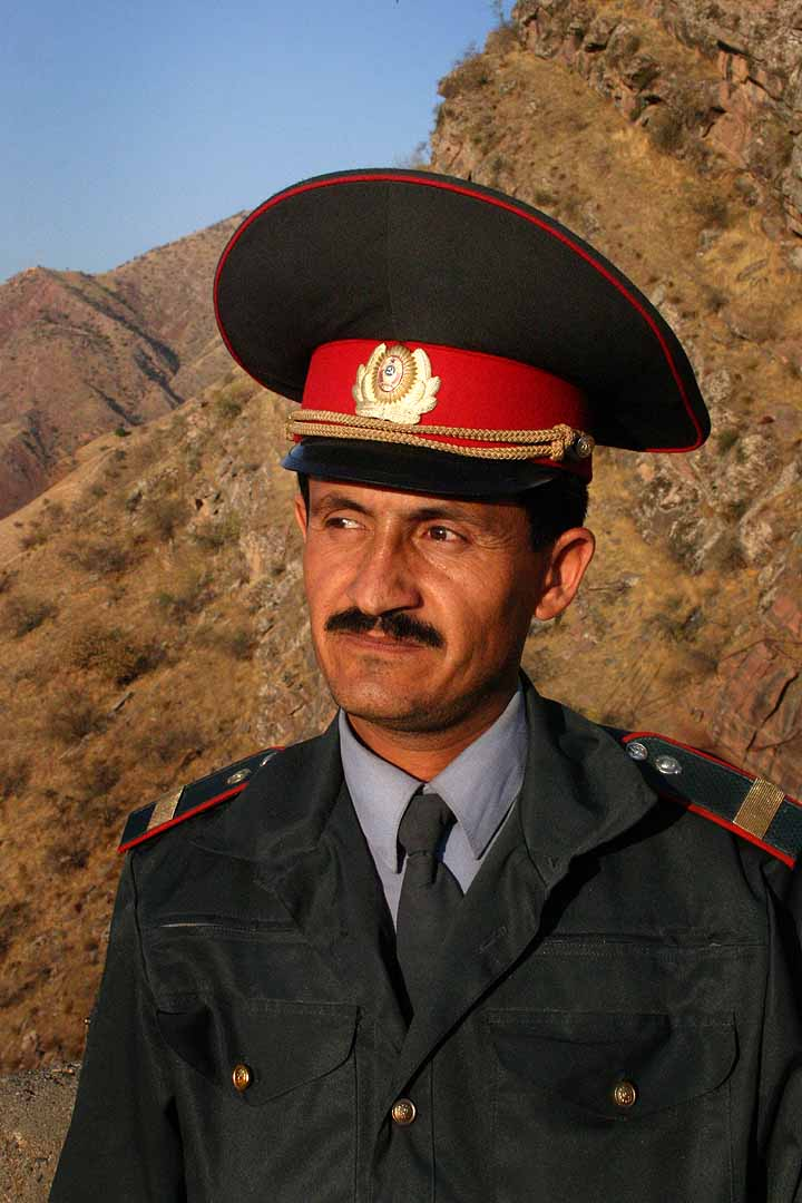 A police officer of Tajikistan in 2005.